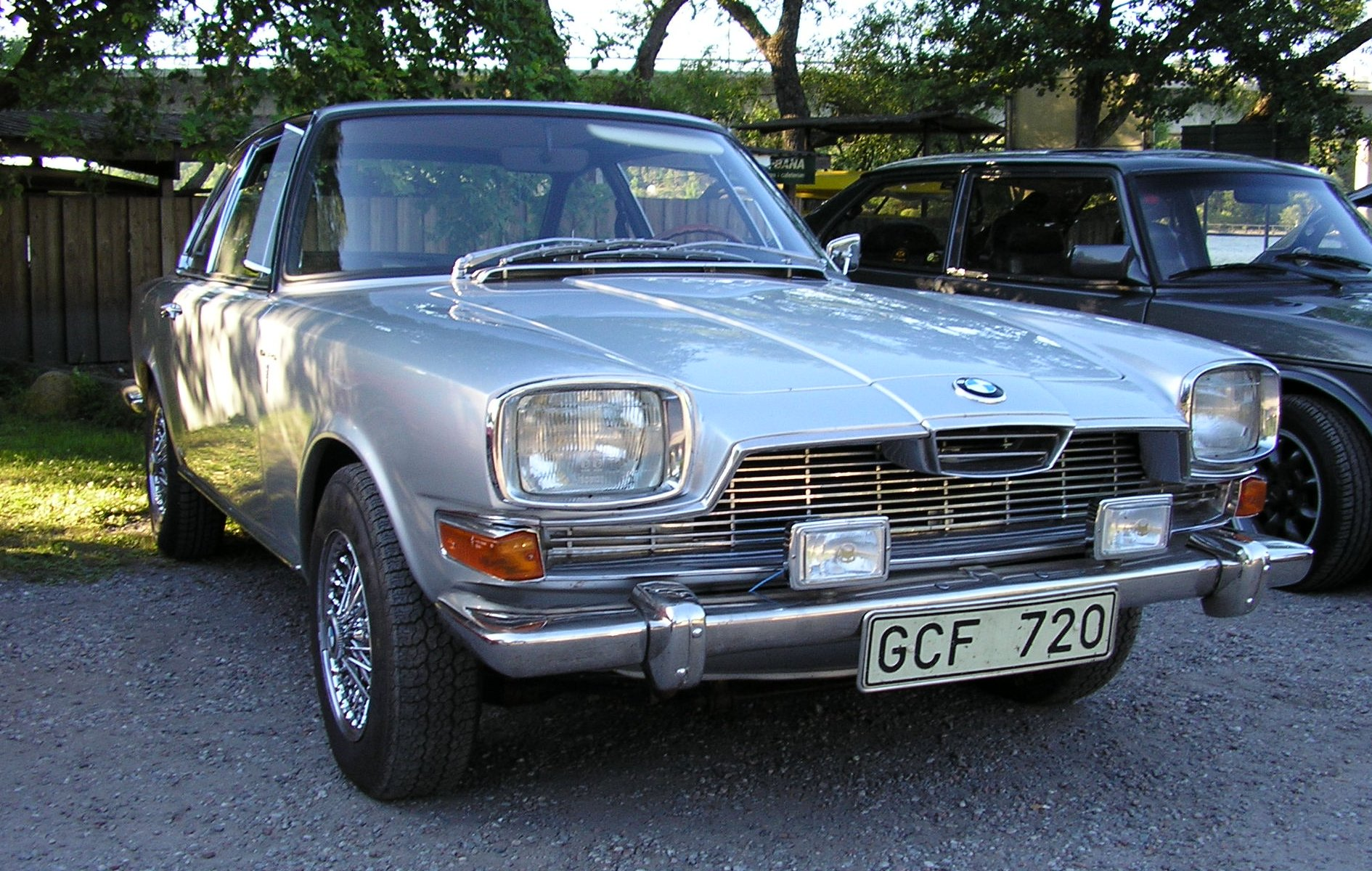 A 1968 BMW Glas 3000. Photographed by myself at Brostugan, Stockholm, Sweden 2005.